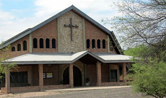 New cathedral of Mariscal Estigarribia